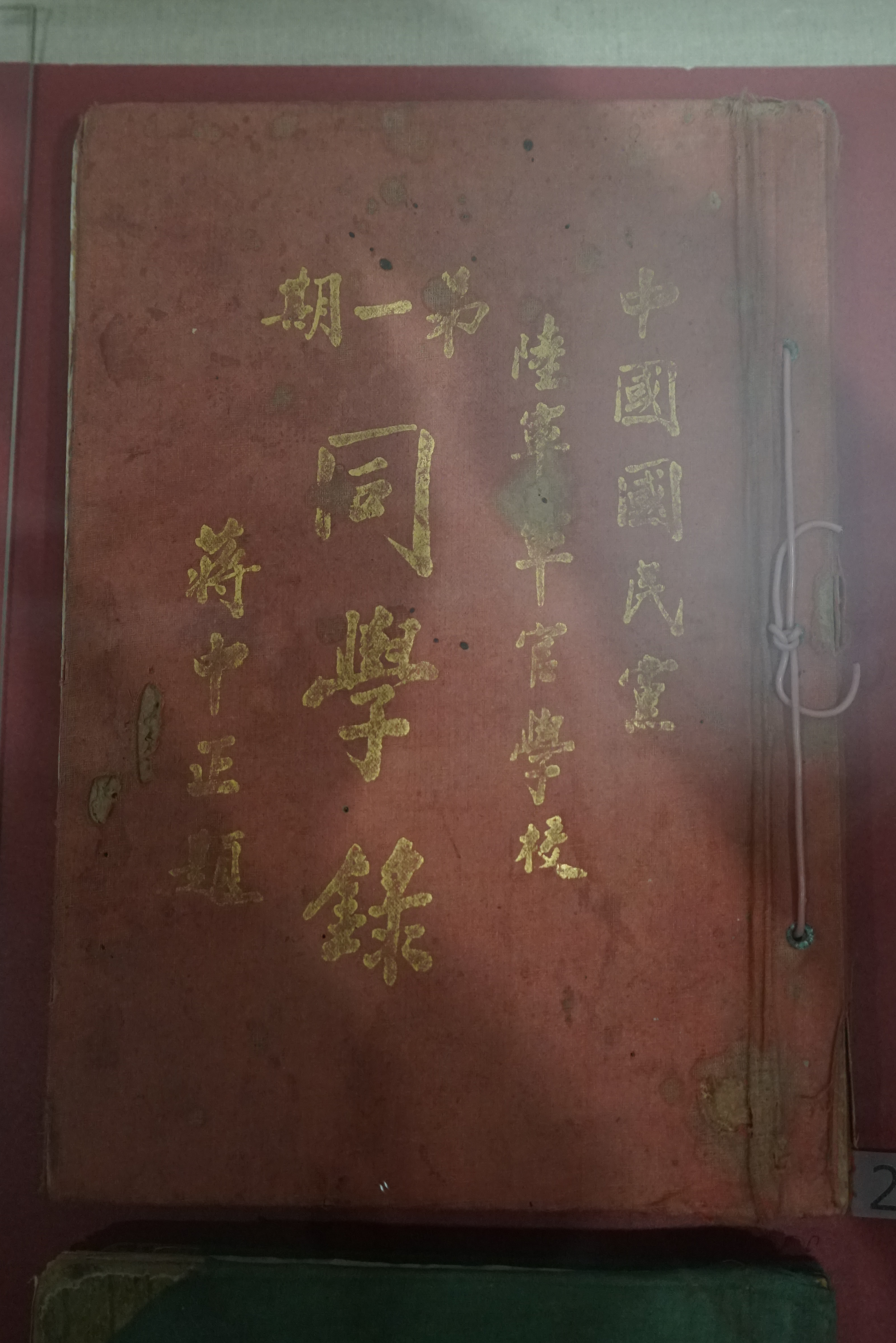 First group alumni record of the Republic of China Military Academy. First-grade cultural relic.